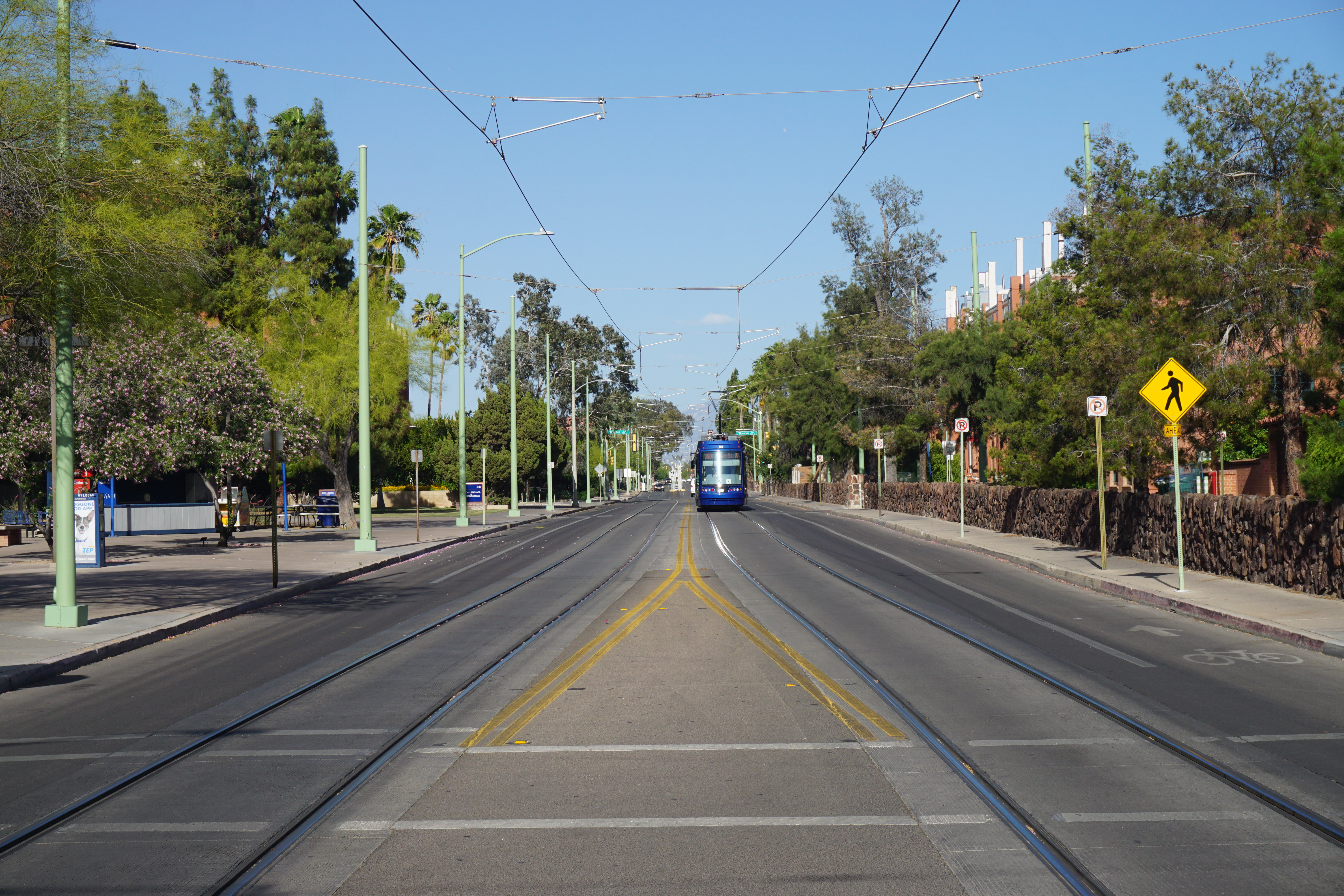 2nd Street in Tucson, Arizona (United States).